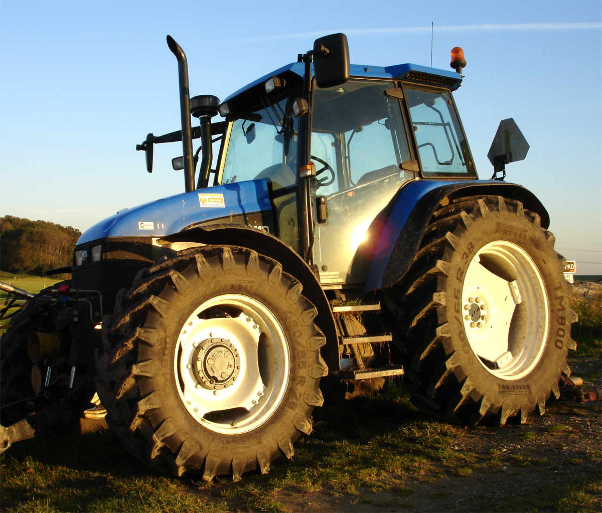 A modern 4-wheel drive farm tractor. New Holland tractor somewhere in the Netherlands.